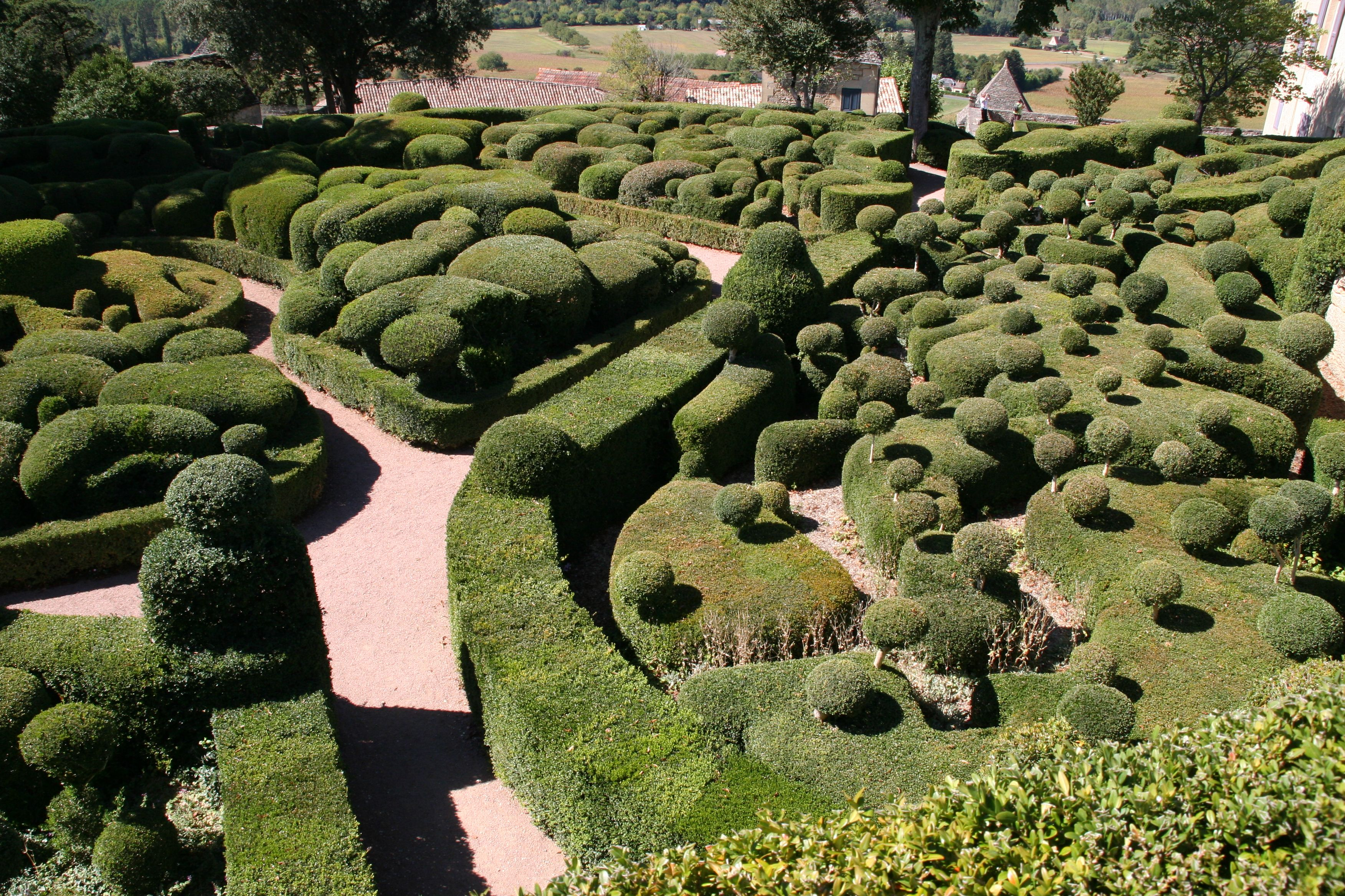 Marqueyssac: Garden